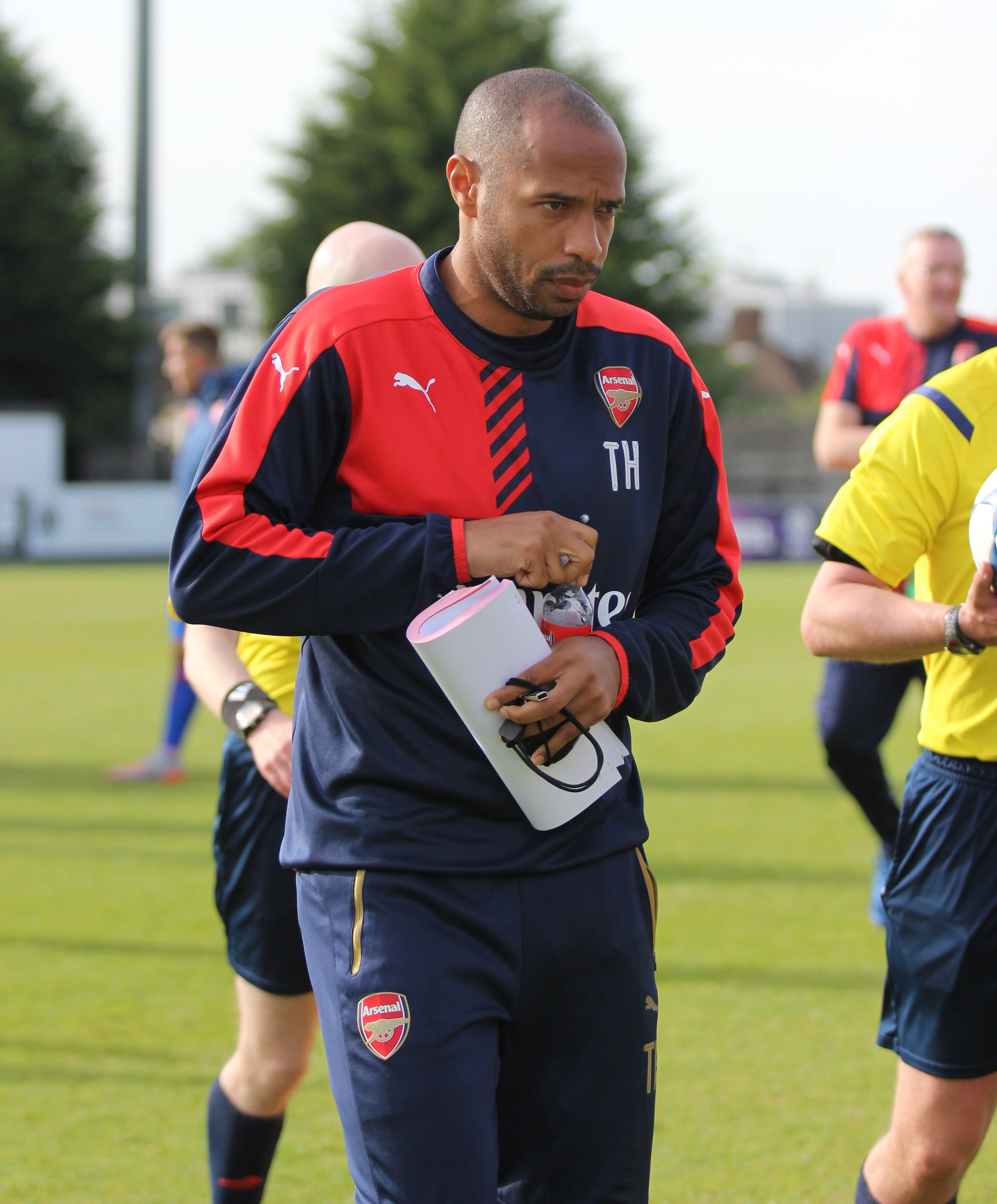 Arsenal youth team coach Thierry Henry after the game against Olympiacos.